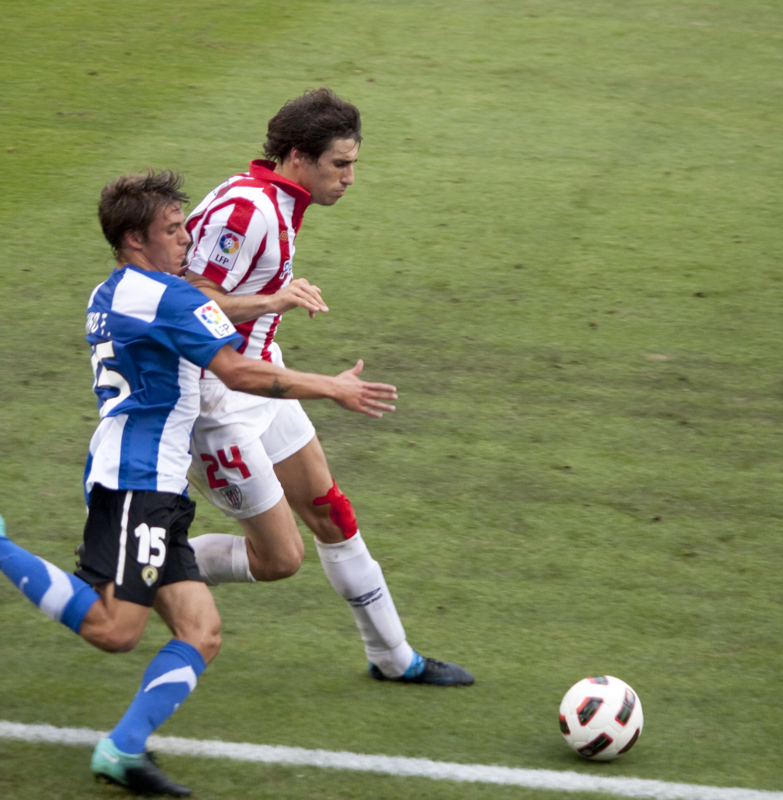 The player of Hércules, Kiko Femenia, wearing the number 15, playing the ball against the number 24 Athletic Bilbao's Javi Martínez. Which belonged to the match of the La Liga Round 1 between Hércules and the Athletic Club, held at the José Rico Pérez Stadium.